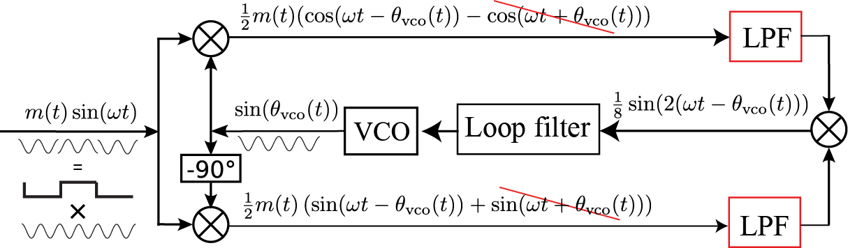 Block-scheme of Costas Loop during synchronization process (pull-in, unlocked state)